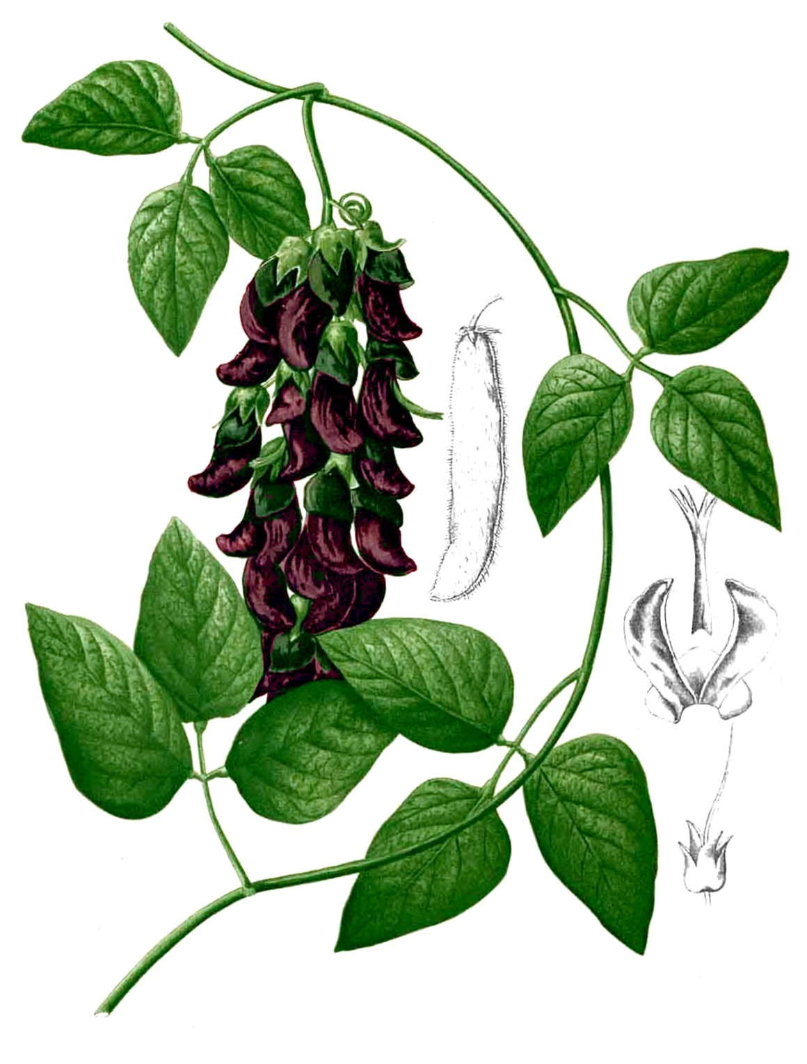 Plate from book